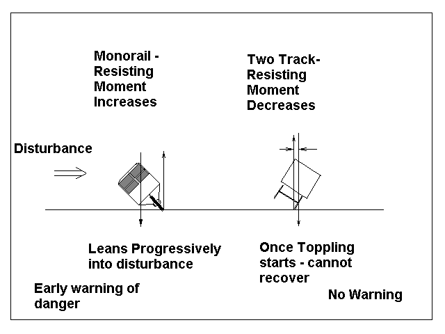 Illustration of single and two track toppling